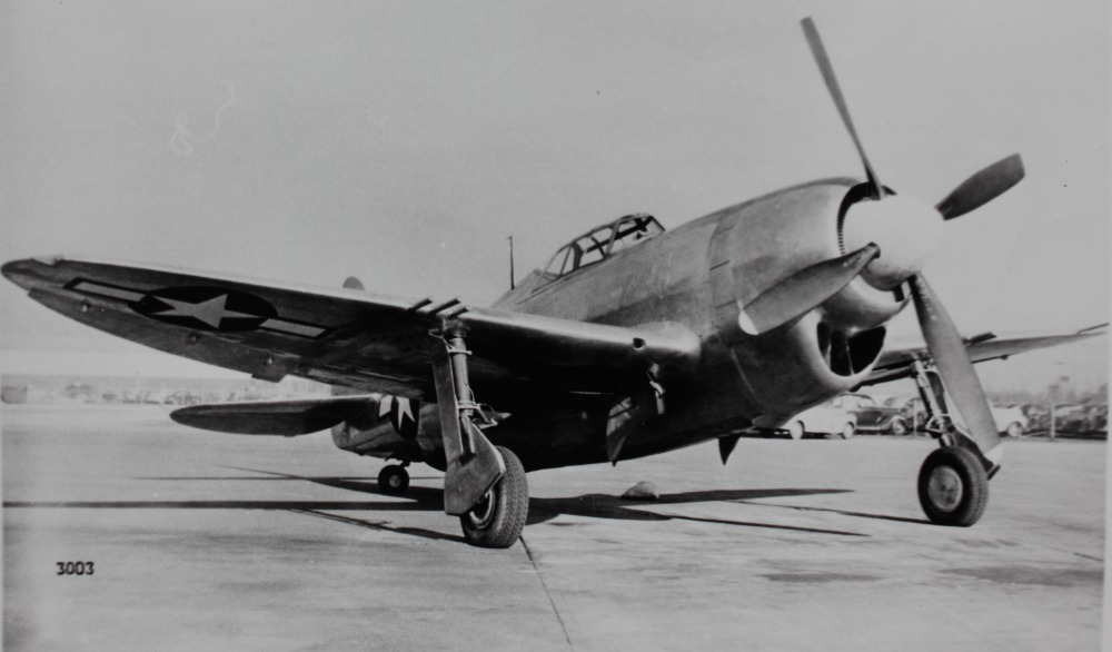 PictionID:42002449 - Title:Republic XP-47J Thunderbolt This XP47-J is 43-46952. The XP-47J was a completely new airframe and not a conversion of an existing P-47D. The XP-47J flew for the first time on November 26, 1943. - Catalog:15_002990 - - Image from the Charles Daniel's Collection Seversky, Republic and P-47 Aircraft Album.Repository: San Diego Air and Space Museum Archive